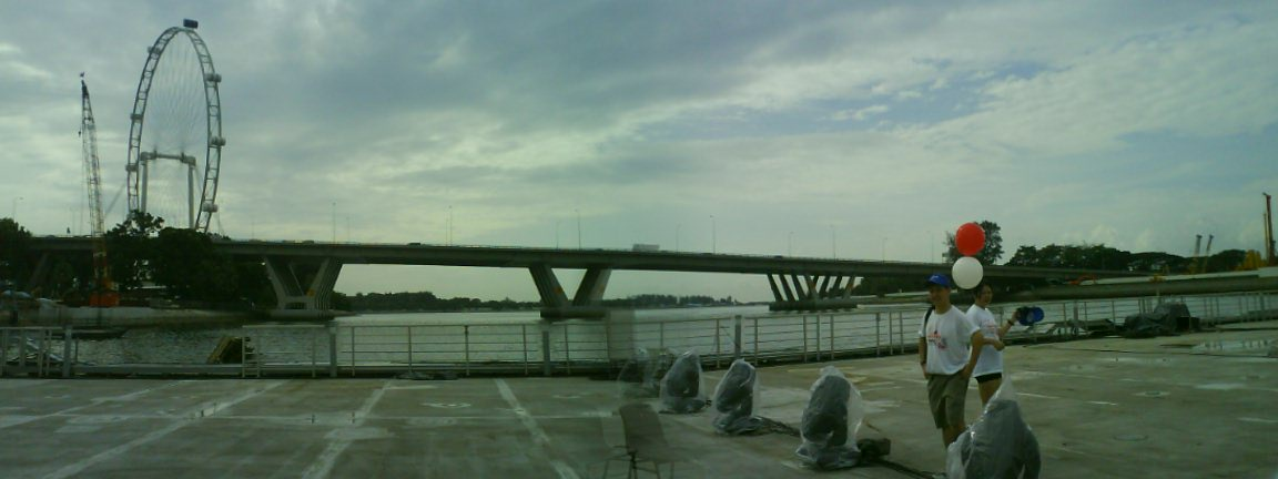 Benjamin Sheares Bridge and the Singapore Flyer